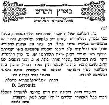 piece of paper